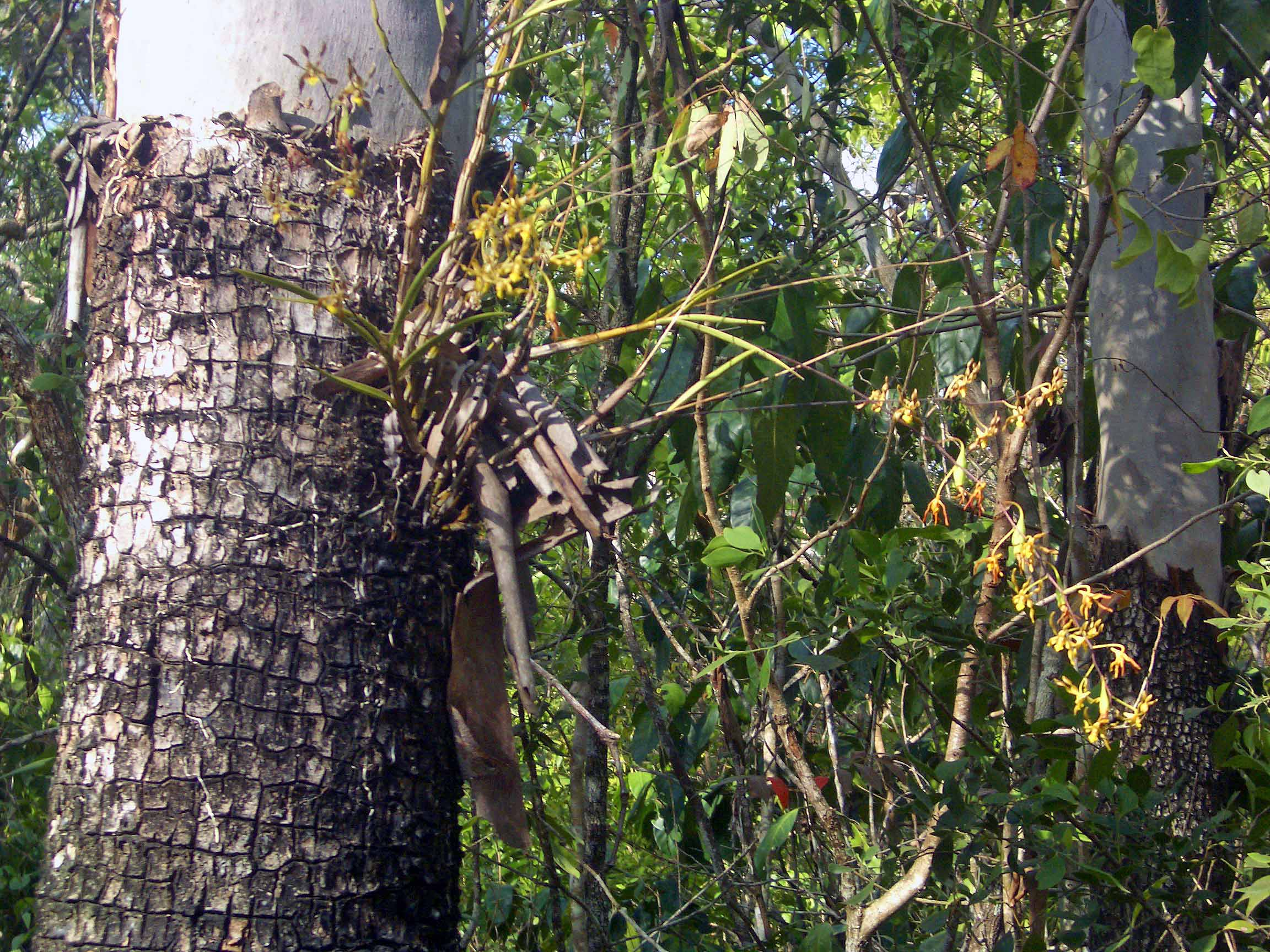 I took this photo this morning on a walk through our property